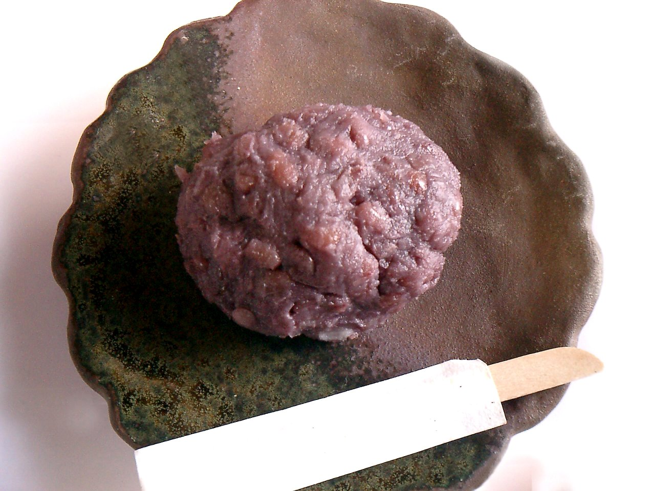 Japanese taraditional sweet called Ohagi or Botamochi